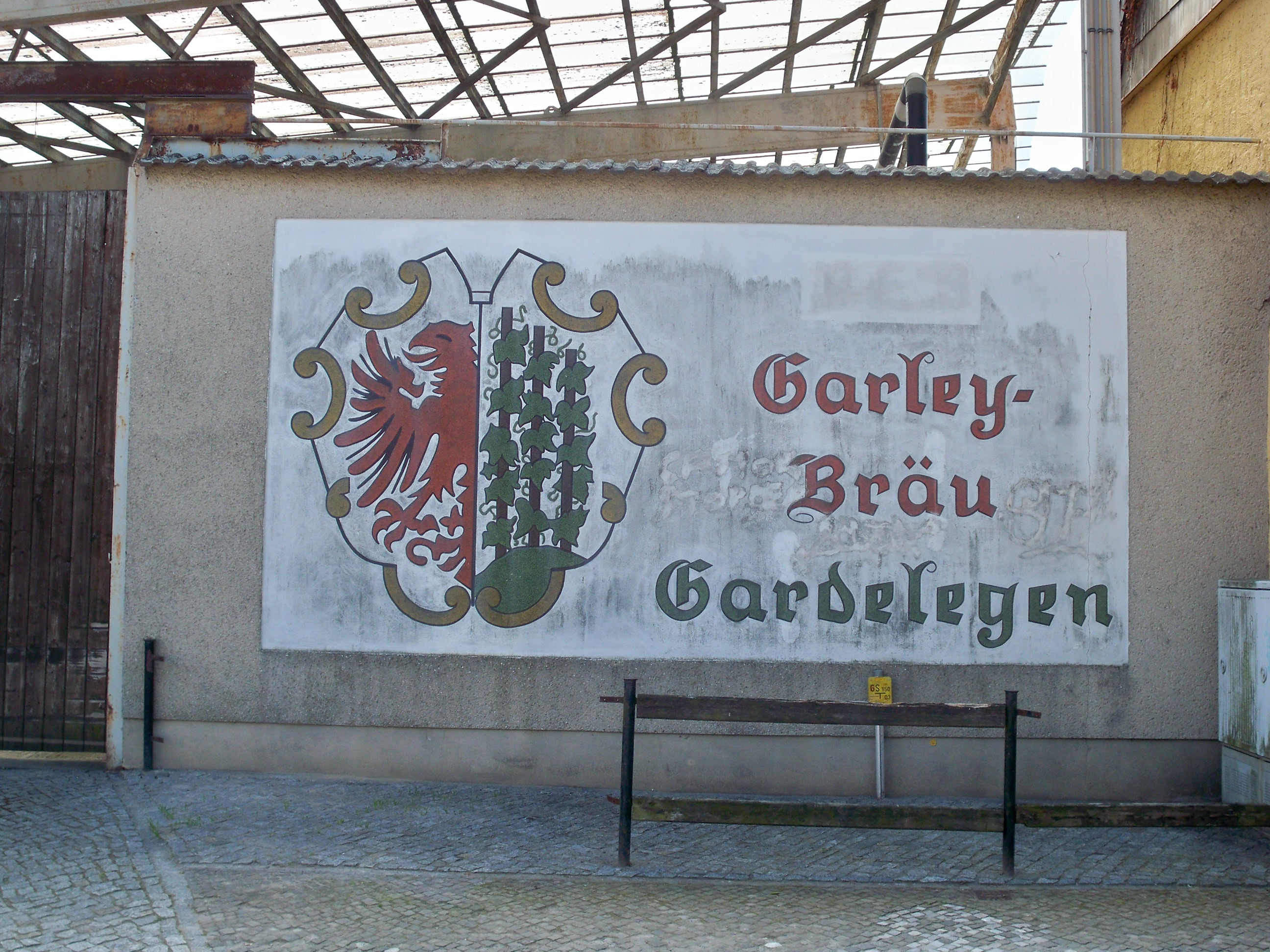 Gardelegen, Saxony-Anhalt, entrance of former brewery "Garley" - Garley beer was brewed since 1314